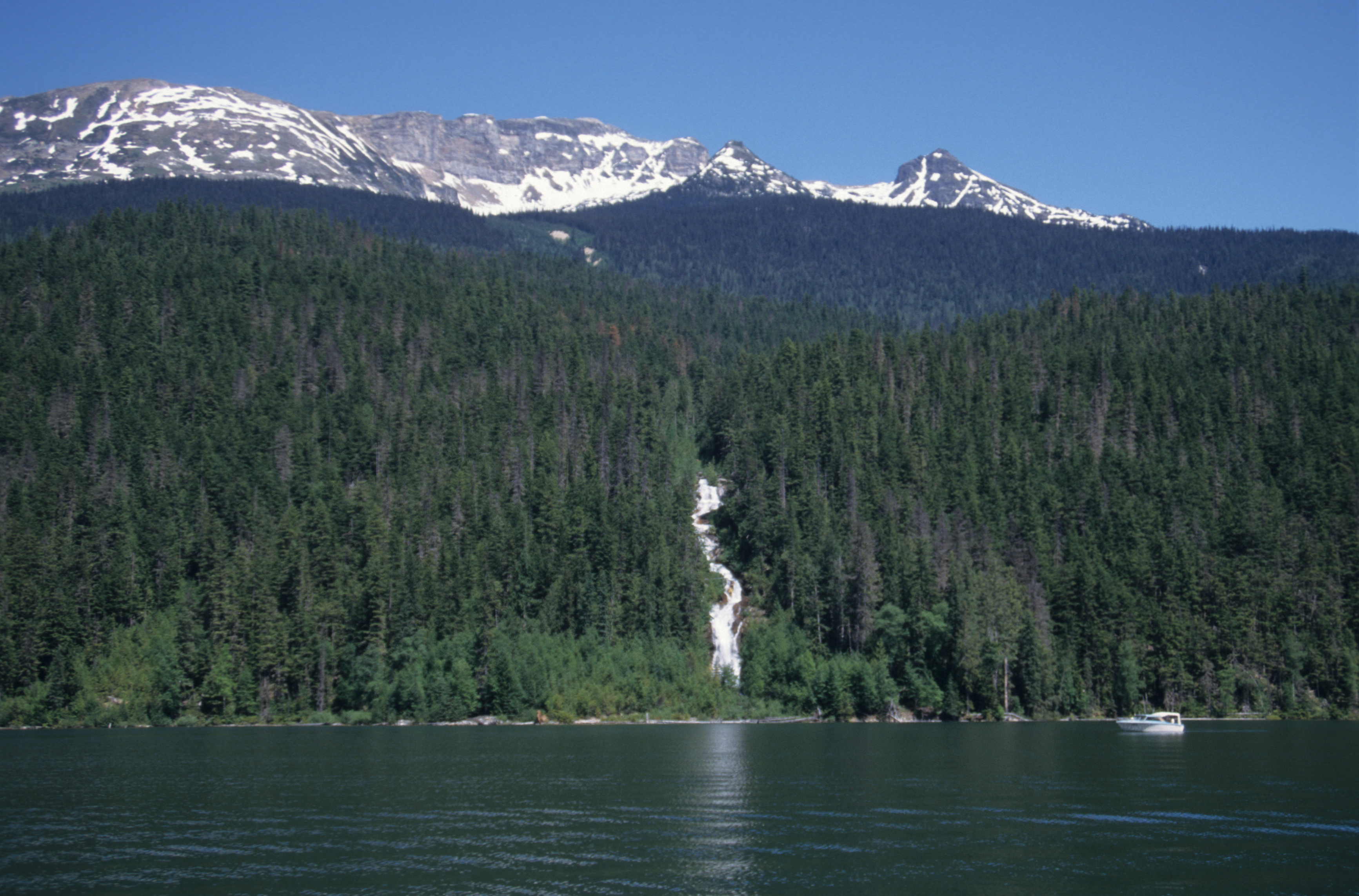 Azure Lake at Garnet Falls with Tryfan Mtn behind. Photo by Roland Neave, contributor to Azure Lake article. From personal Wells Gray Park collection.